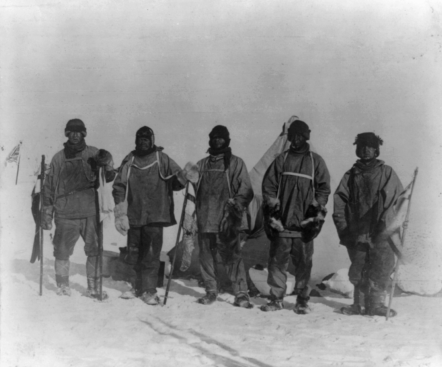 Original caption: “Camp at the South Pole.” Published in: The Great White South... / by Herbert G. Ponting, F.R.G.S. New York : Robert M. McBride & Co., 1922. Reproduction Number: LC-USZ62-30081